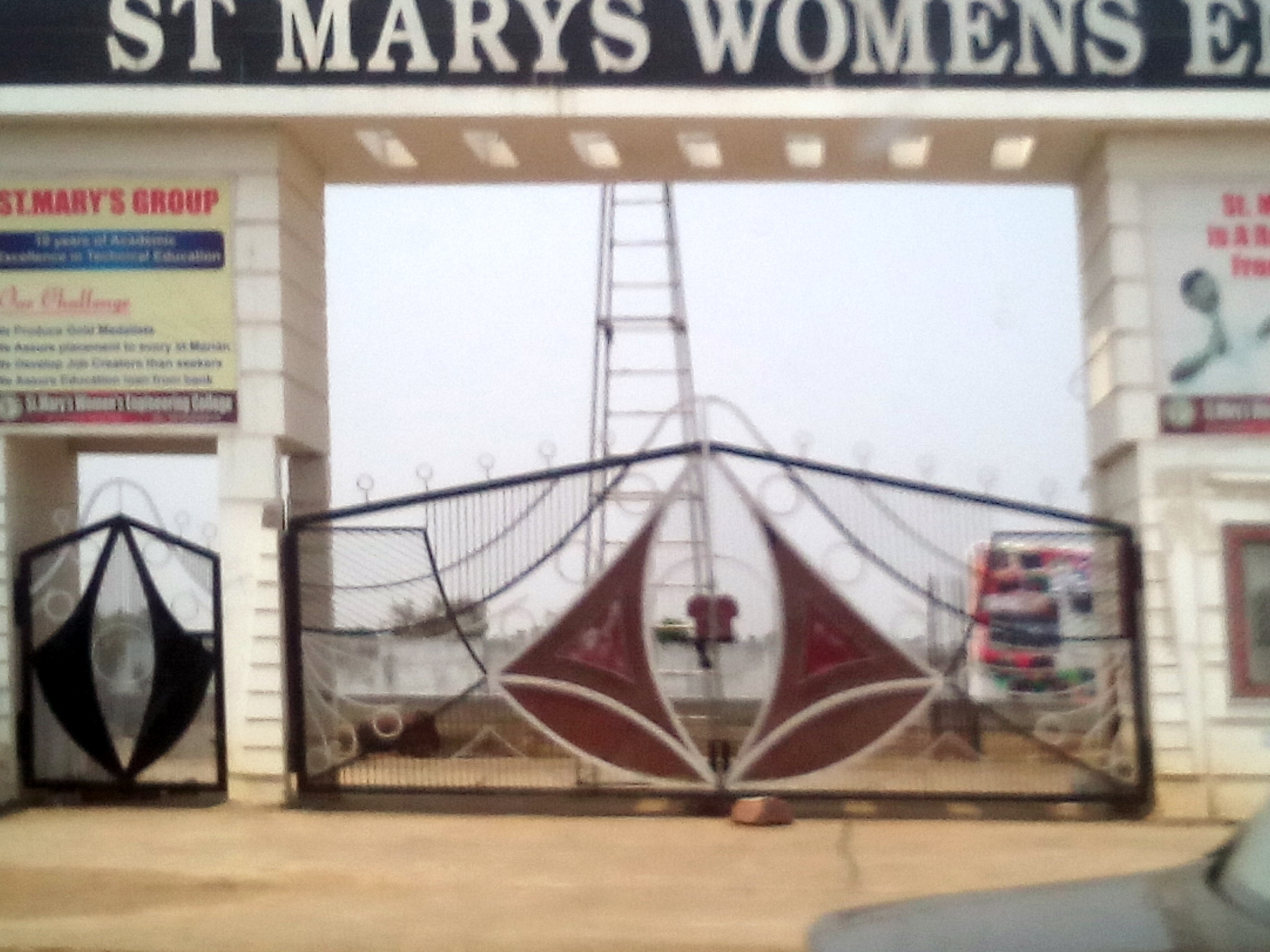 St.Mary's Womens Engineering College at Budampadu, Guntur